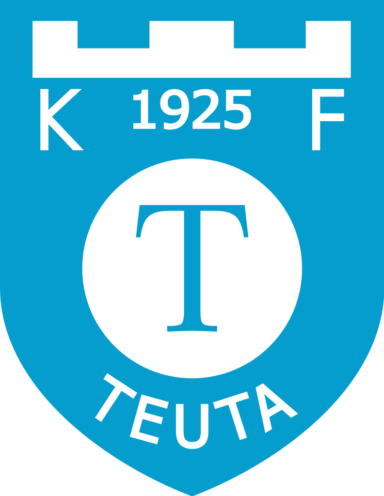 KF Teuta